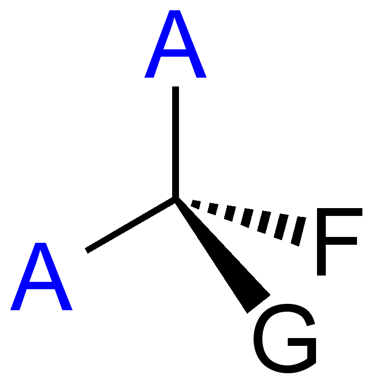 Prochirality_Principle